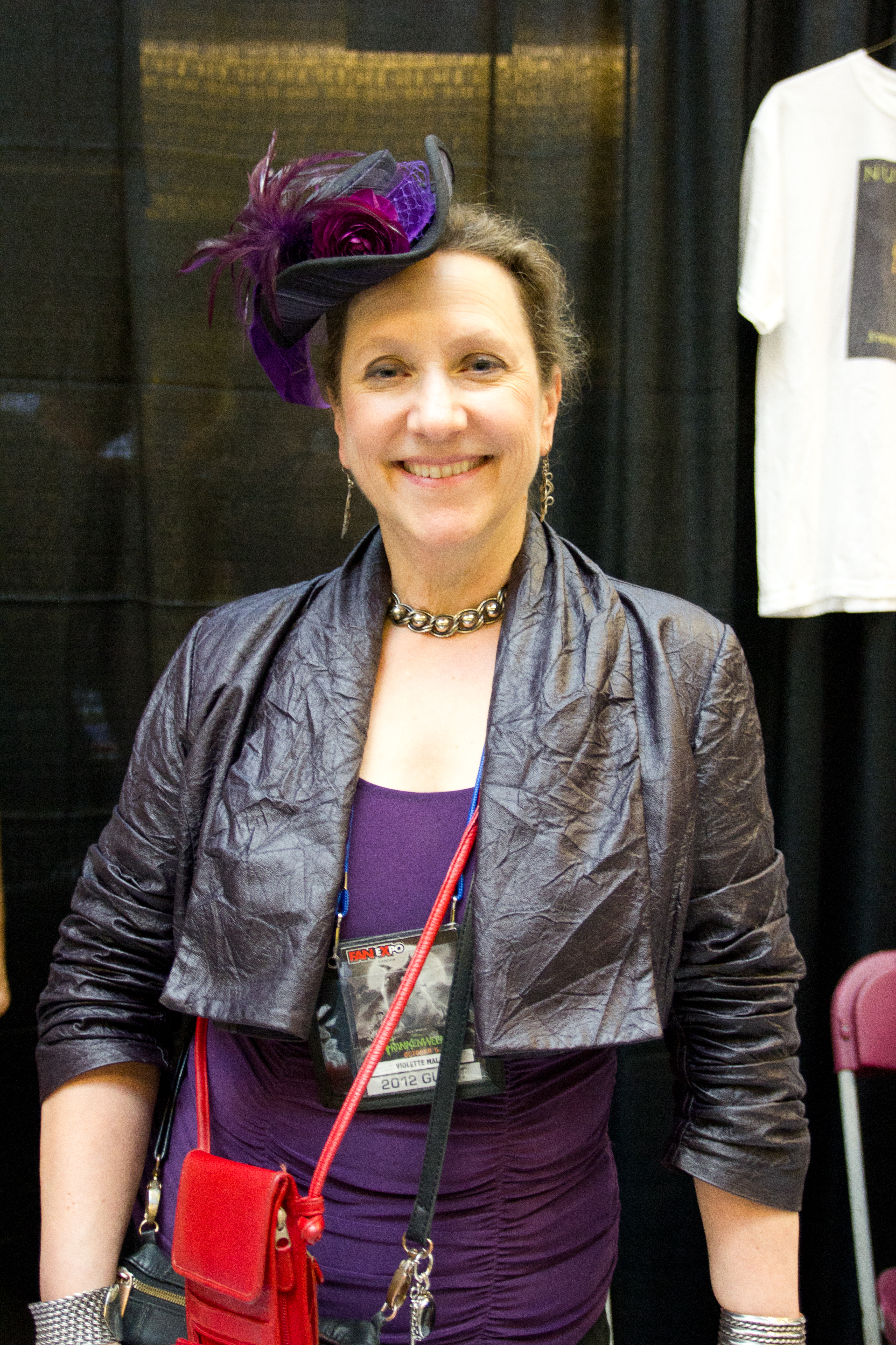 Author Violette Malan at the 2012 FanExpo Canada